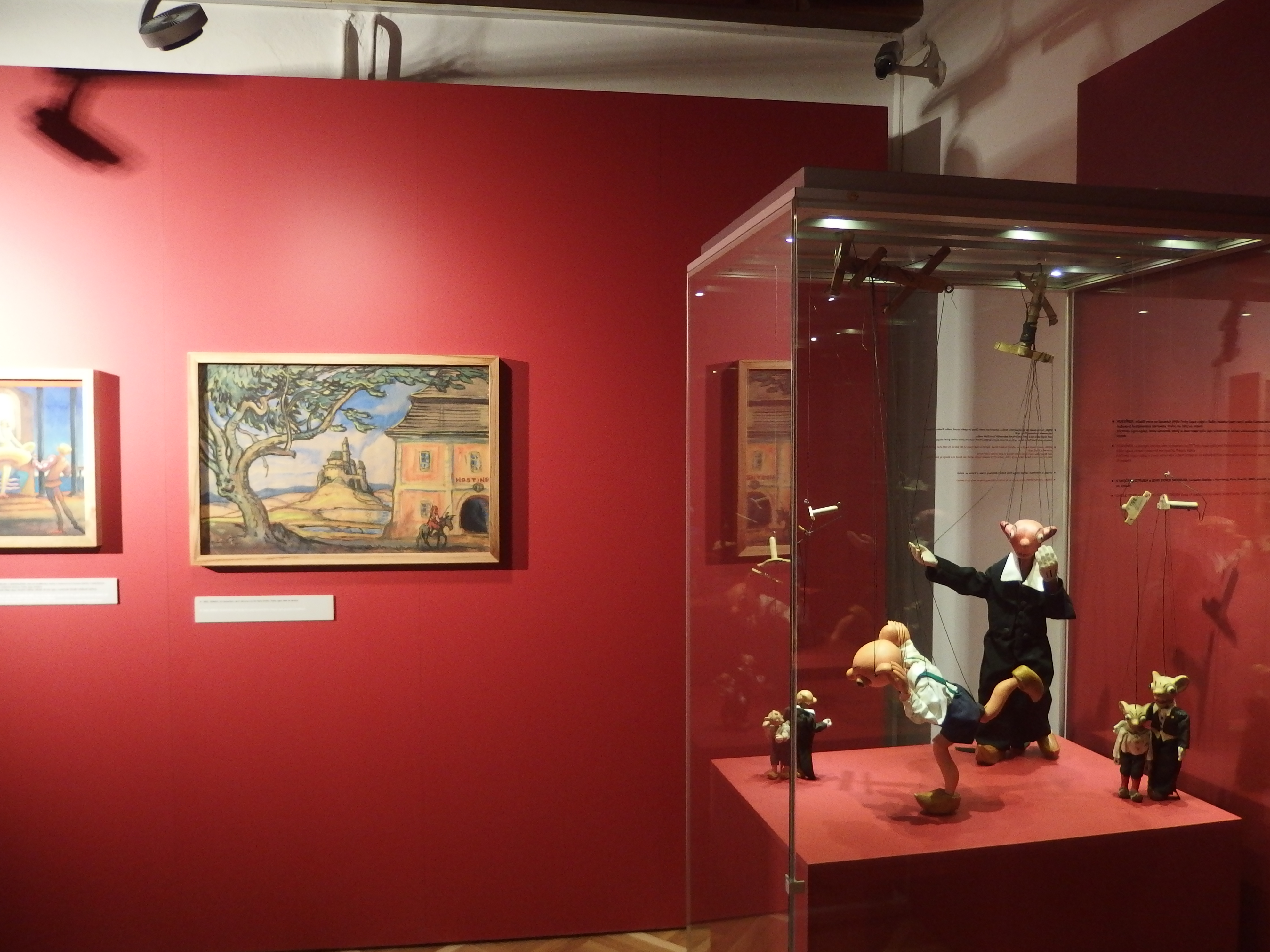 Chrudim, Czech Republic. Muzeum loutkářských kultur (Puppetry museum).